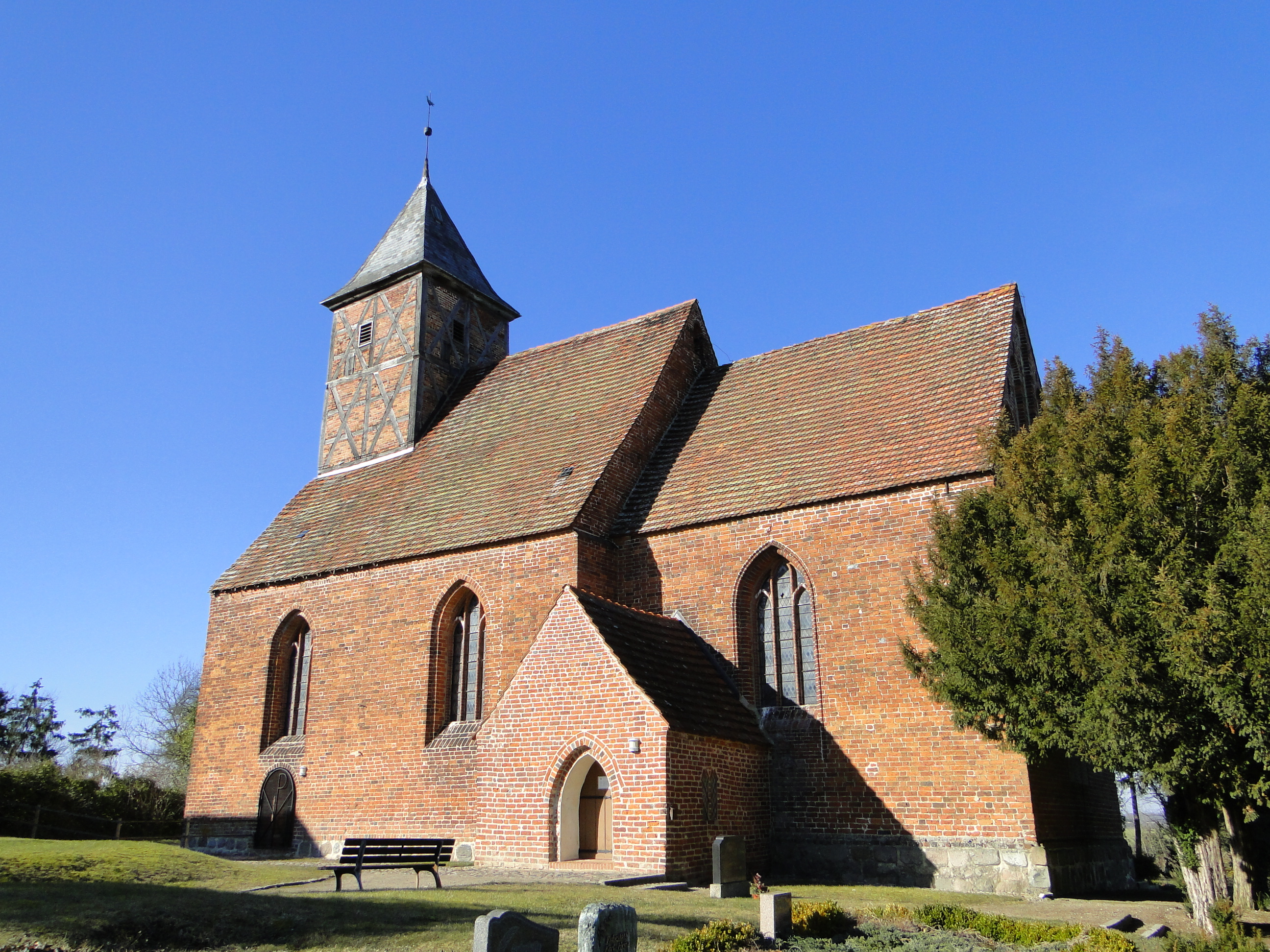 Church in Woosten, district Ludwigslust-Parchim, Mecklenburg-Vorpommern, Germany